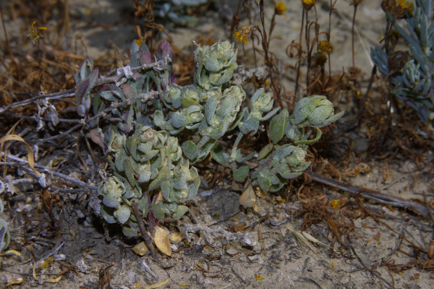 Atriplex coronata notatior (San Jacinto Valley crownscale) is a bushy, erect, federally endangered annual plant, 4 to 12 inches tall and endemic to western Riverside County, California. Plants occur in silty-clay soils in wetland areas, primarily floodplains, and are associated with alkali playa, and alkali grassland and scrub habitats. The small leaves appear grayish and scaly during the growing season, but become straw-colored as they mature. (Chris Brown/USGS)